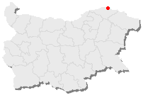 Map of Bulgaria, the red point is the position of Aydemir.